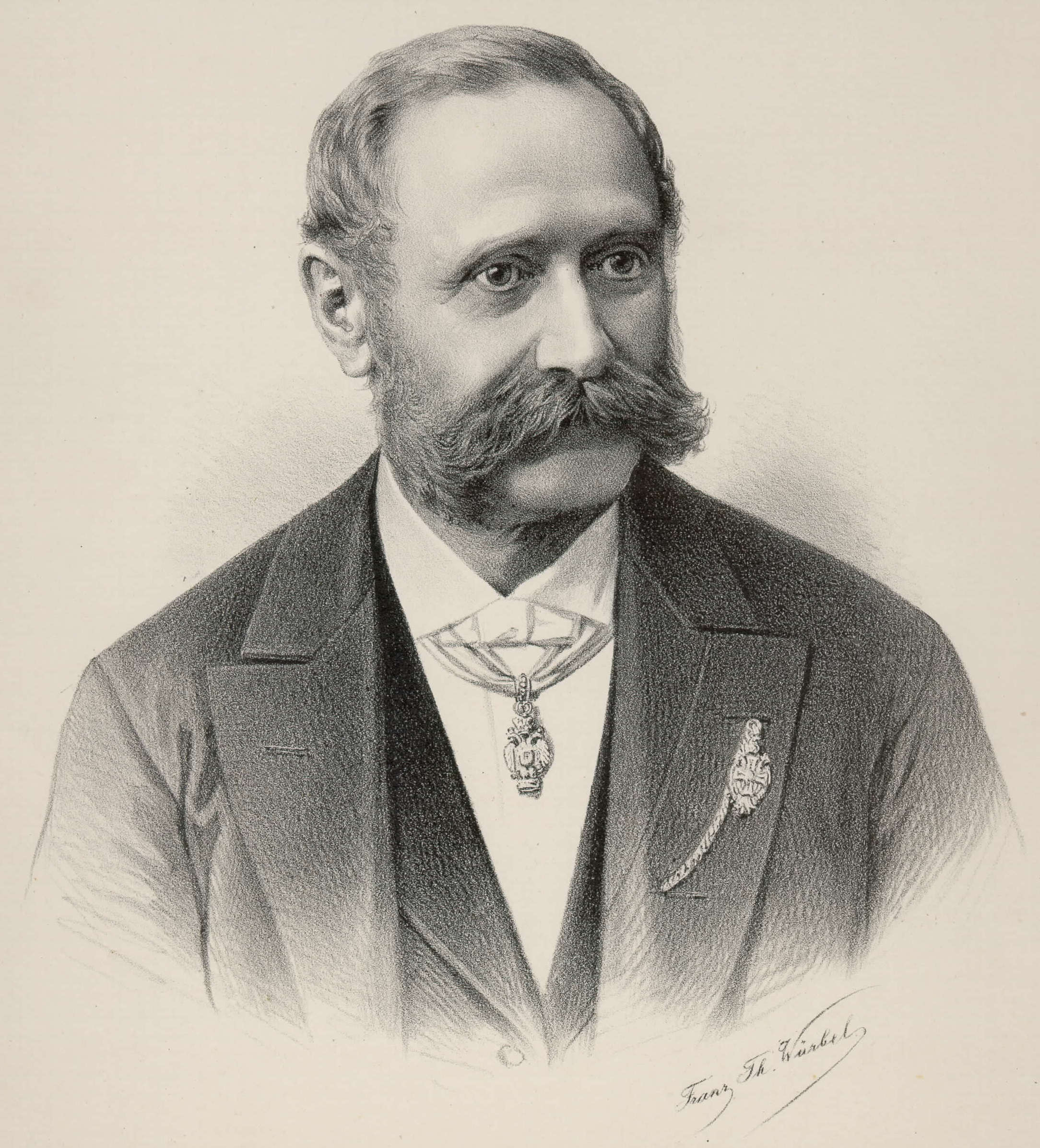 Andrej Winkler (1825-1916), slovene politician.